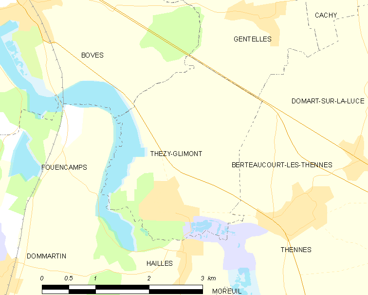 Map of French municipality Thézy-Glimont